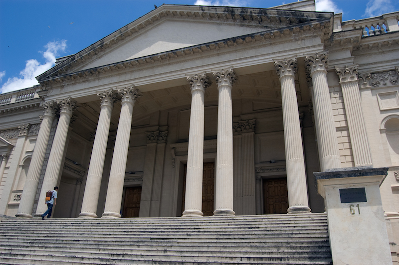 Photograph of the portico of Sir Edwin Luytens 1916 home for theBritish School at Rome